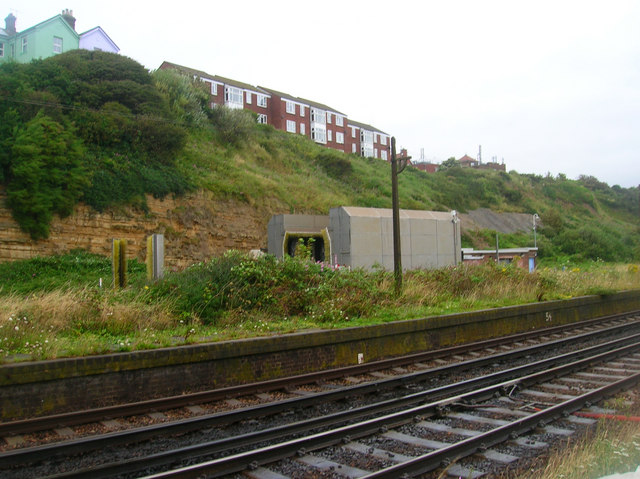 Site of West Marina Station. Taken from the car park of MFI looking at the platforms of the former station with the train washing facility in front of the sandstone cliffs. See 526209 for the full story of the station.